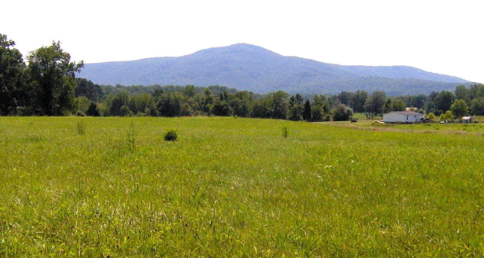 Lone Mountain, el. 2530 ft. (770m), rising above central Morgan County, Tennessee, in the southeastern United States. *This view is from a road just off TN-62. Lone Mountain is protected by Lone Mountain State Forest. In spite of its relatively low elevation, Lone Mountain's detachment from the rest of the Crab Orchard range has made it one of the 25 most prominent mountains in the state of Tennessee.